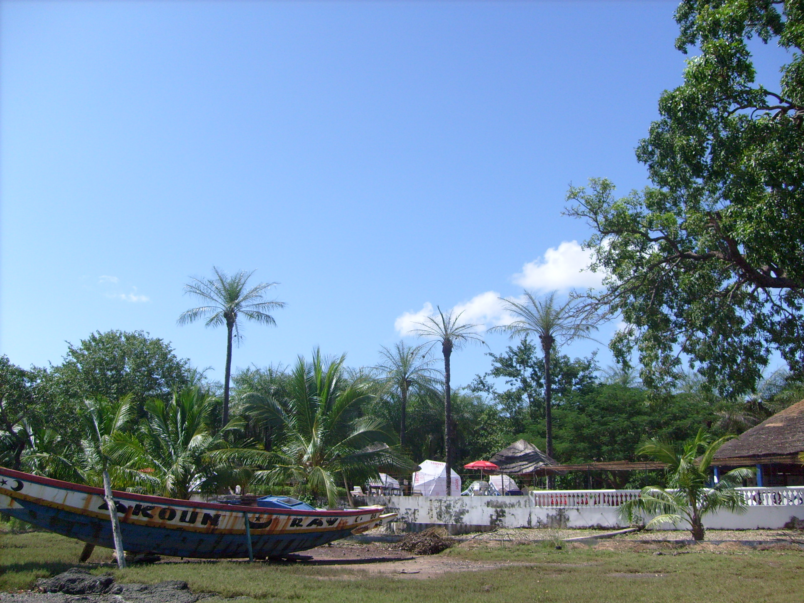 Costal area at Hotel Mar azul, Quinhamel, Biombo region, Guinea Bissau